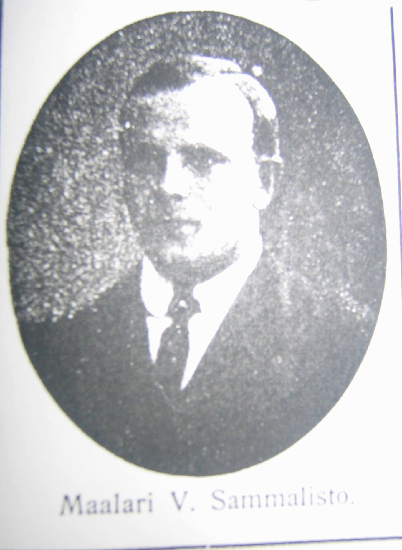 Finnish red guard leader Valdemar Sammalisto